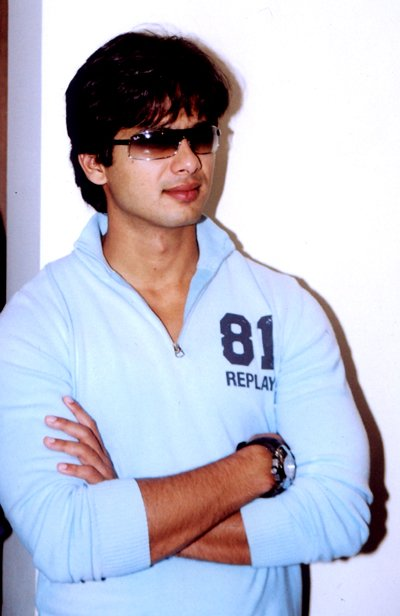 Shahid Kapoor at the 32 Reasons Dental Center in 2004